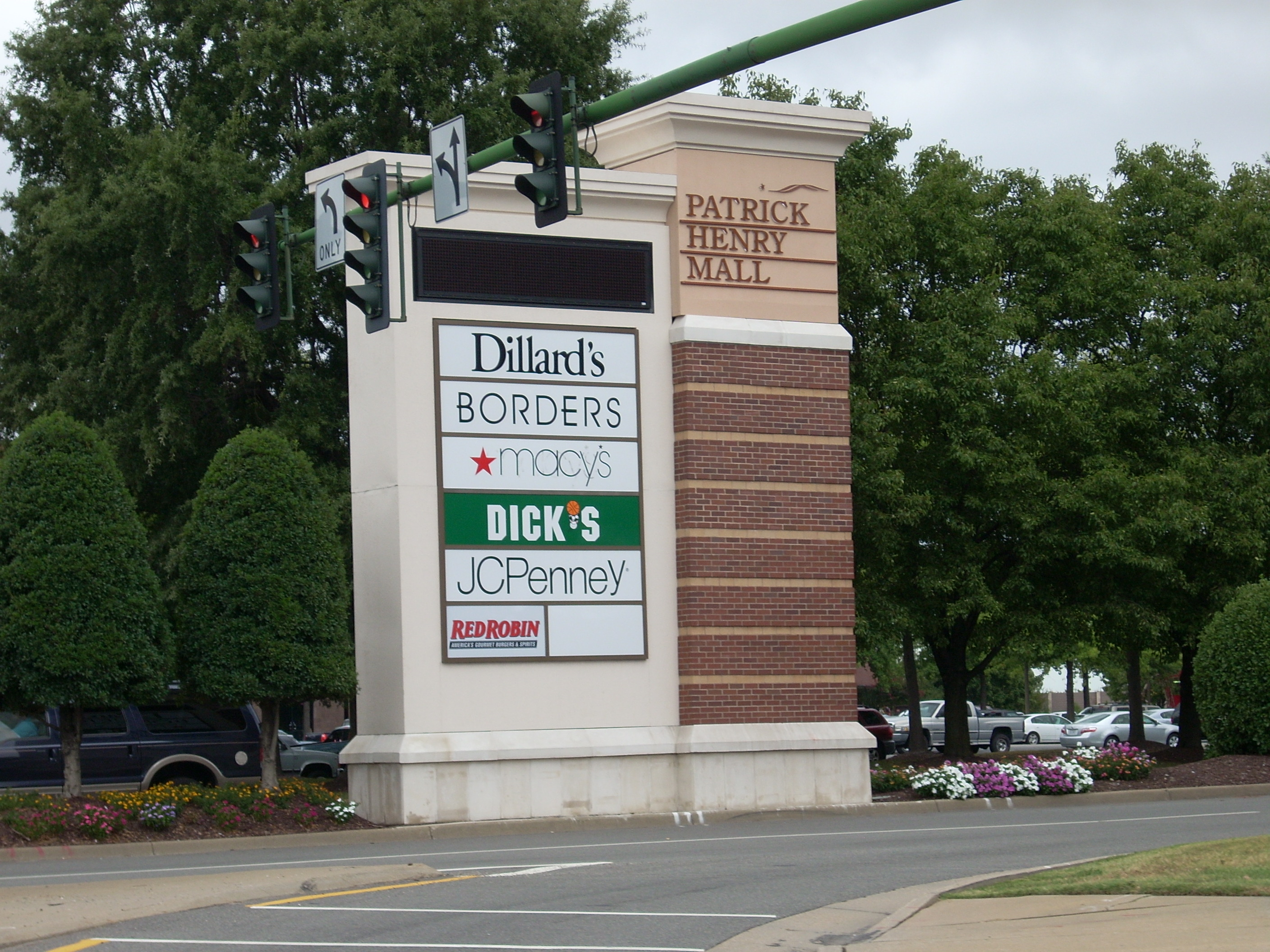 Patrick Henry Mall sign taken by me.